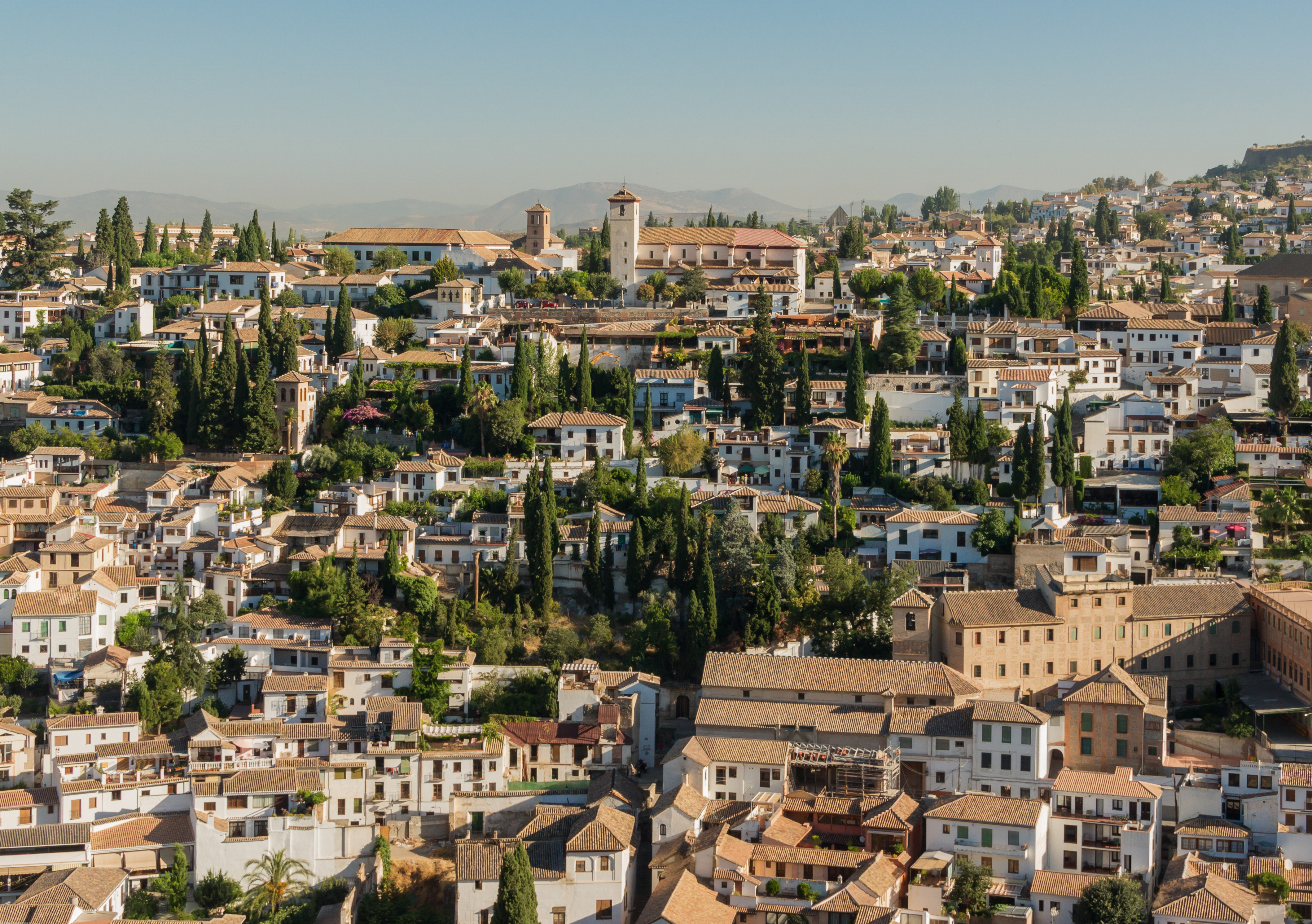 Albaizin, Mirador San Nicolas, from Alhambra, Granada, Andalusia, Spain